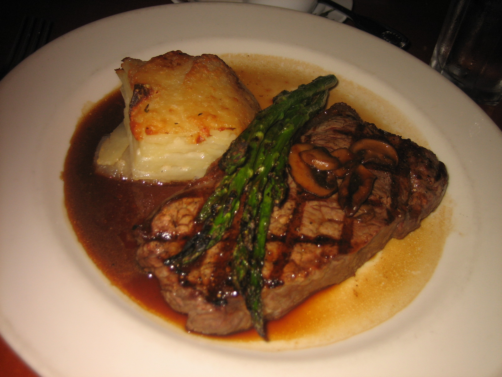 Grilled Creekstone Farms New York Steak with Mushroom Madeira Sauce, Scalloped Potatoes and Grilled Asparagus.